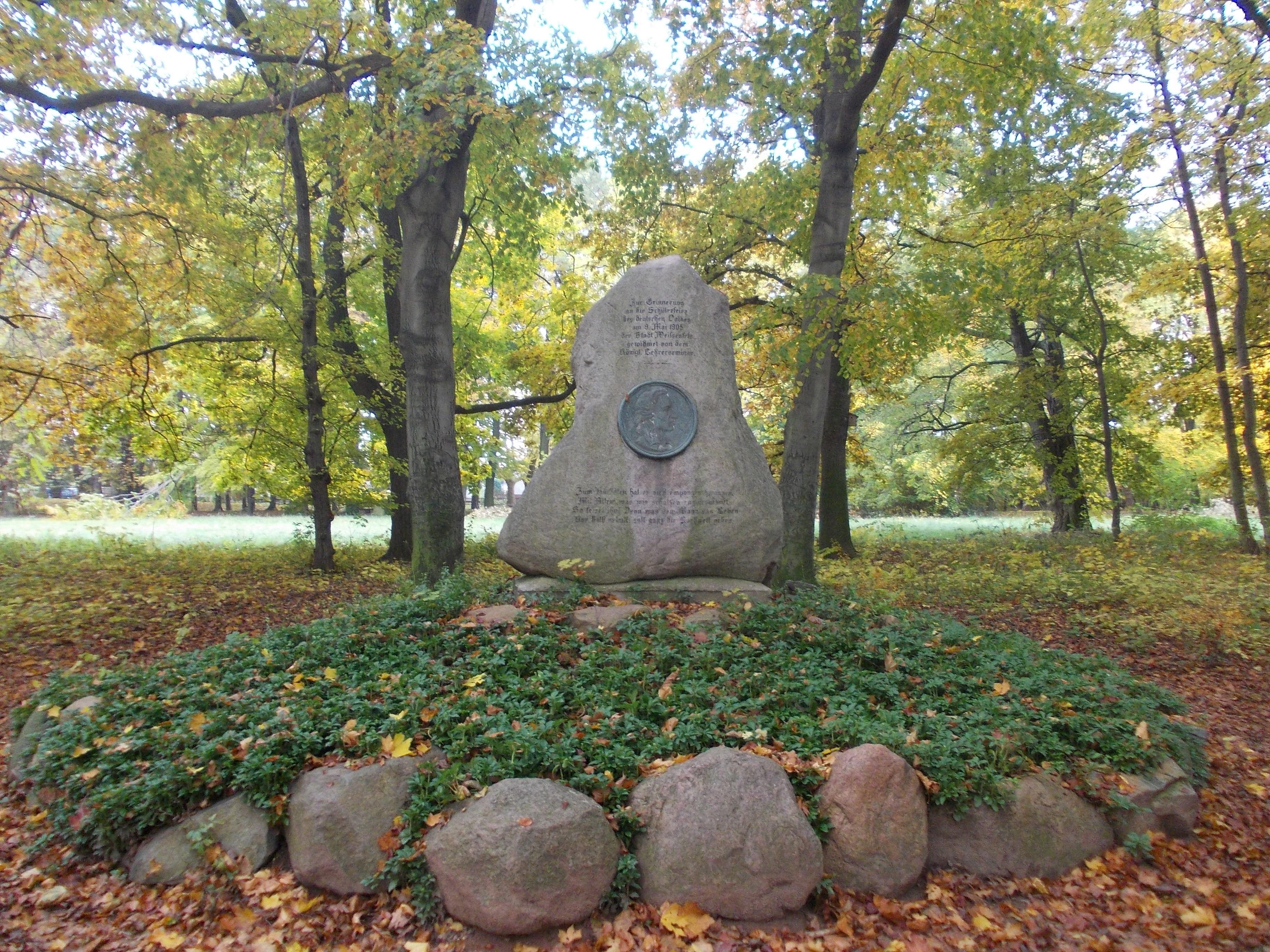 Friedrich Schiller memorial in Klemmberg Park in Weissenfels (district: Burgenlandkreis, Saxony-Anhalt)